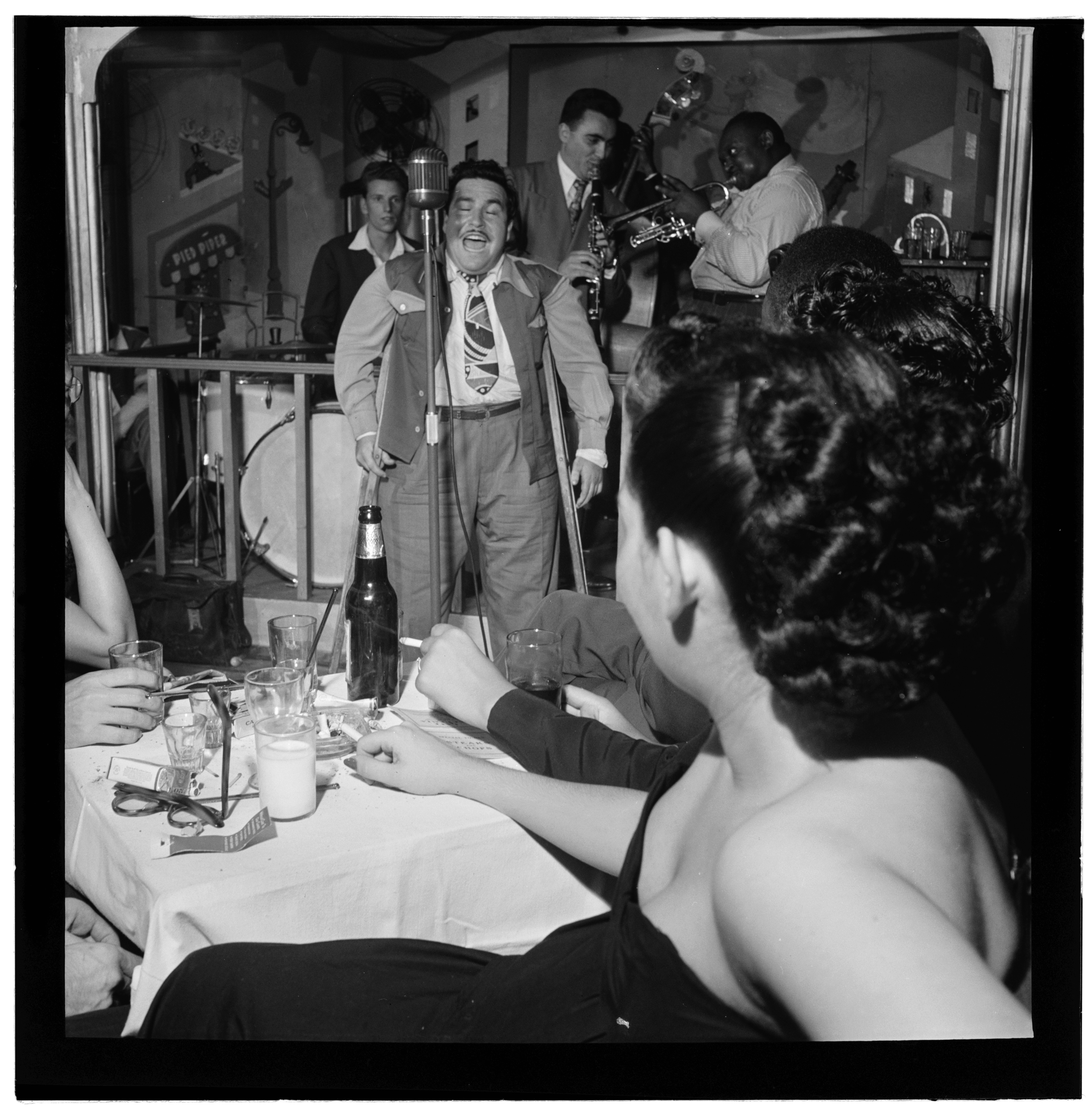 Portrait of Uffe Bode, Doc Pomus, Sol (Solomon) Yaged, John (O.) Levy, and Rex William Stewart, Pied Piper, New York, N.Y., ca. Sept. 1947. In: "All kinds of musical allegiances gather under the Dane's banner," Down Beat, v. 14, no. 19 (Sept. 10, 1947), p. 3. Caption from Down Beat: One of the weekly jam sessions sponsored in the Village by Timmie Rosenkrantz produced these photos, by Got. Second shot shows Rex Stewart, trumpet; Sol Yaged, clarinet; Uffe Bode, drummer; Doc Pomus, singer. One modern and several standard groups were used. Call Number: LC-GLB23- 0712